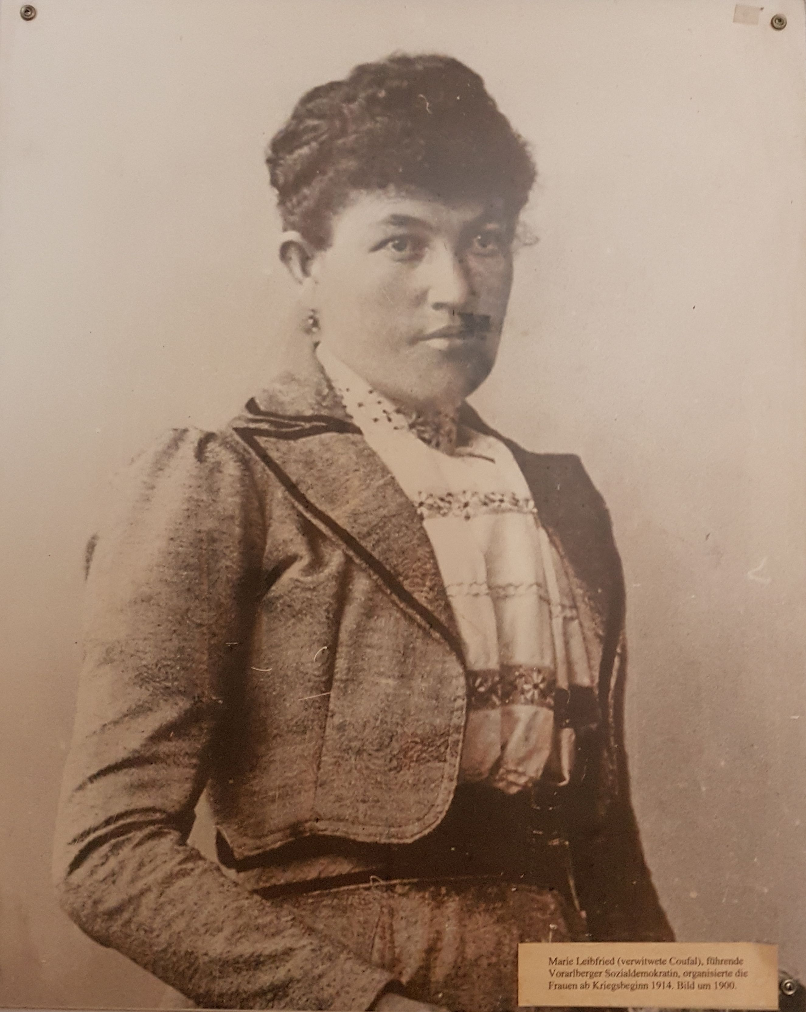 Maria Leibfried, wife of Hermann Leibfried. Leading socialist in Vorarlberg. Exhibition of Volkshilfe Vorarlberg. Picture created around 1900.